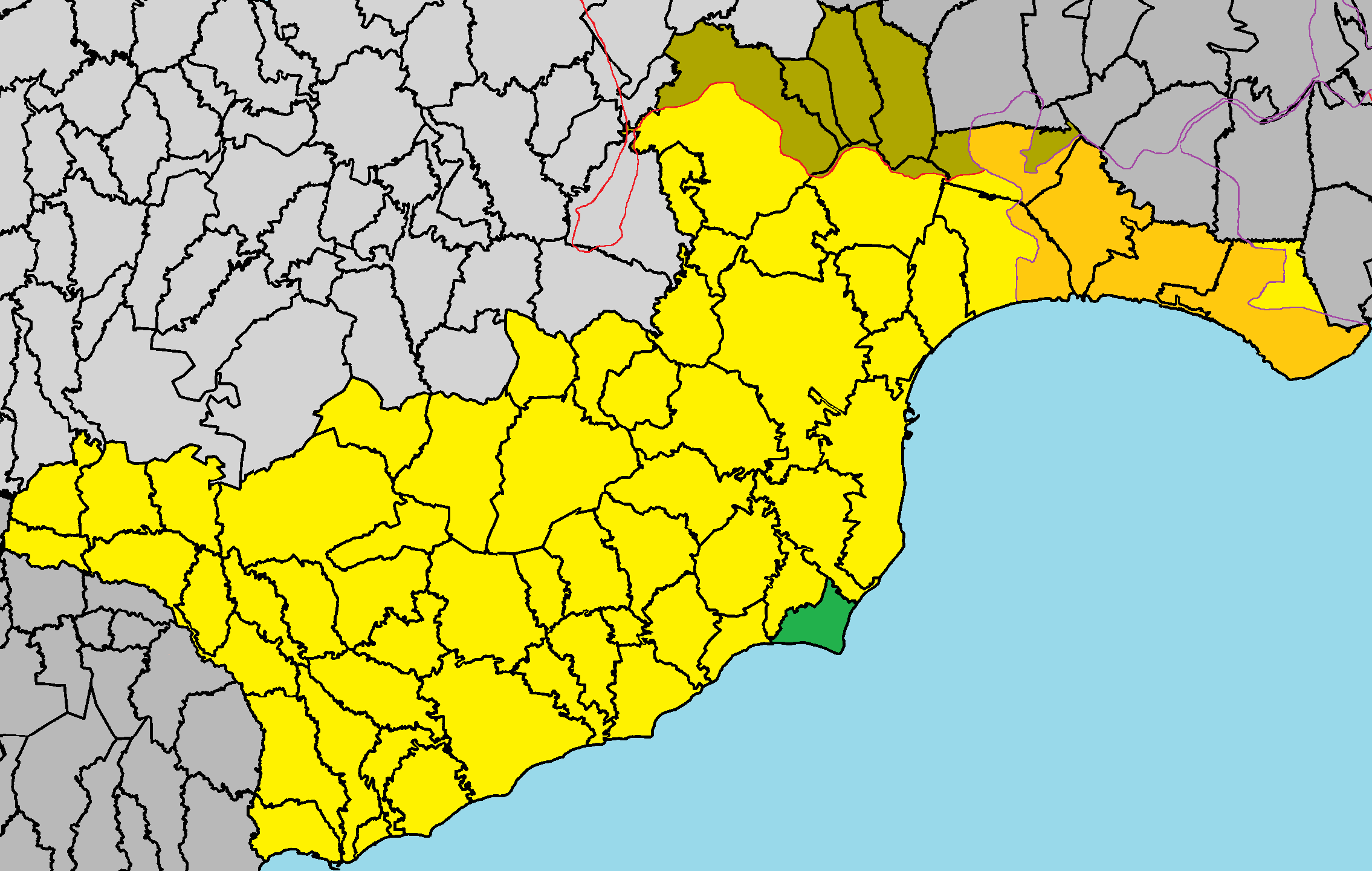 Pervolia in Larnaca District.